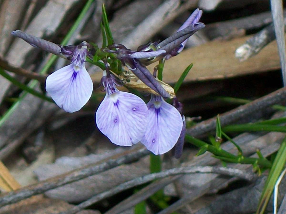 Hybanthus flower off the Elvina Track, Ku-Ring-Gai Chase National Park, Australia. Probably Hybanthus monopetalus as the flowers are in a short raceme and the lower leaves are linear, and less crowded. More likely to be H. monopetalus than H. vernonii